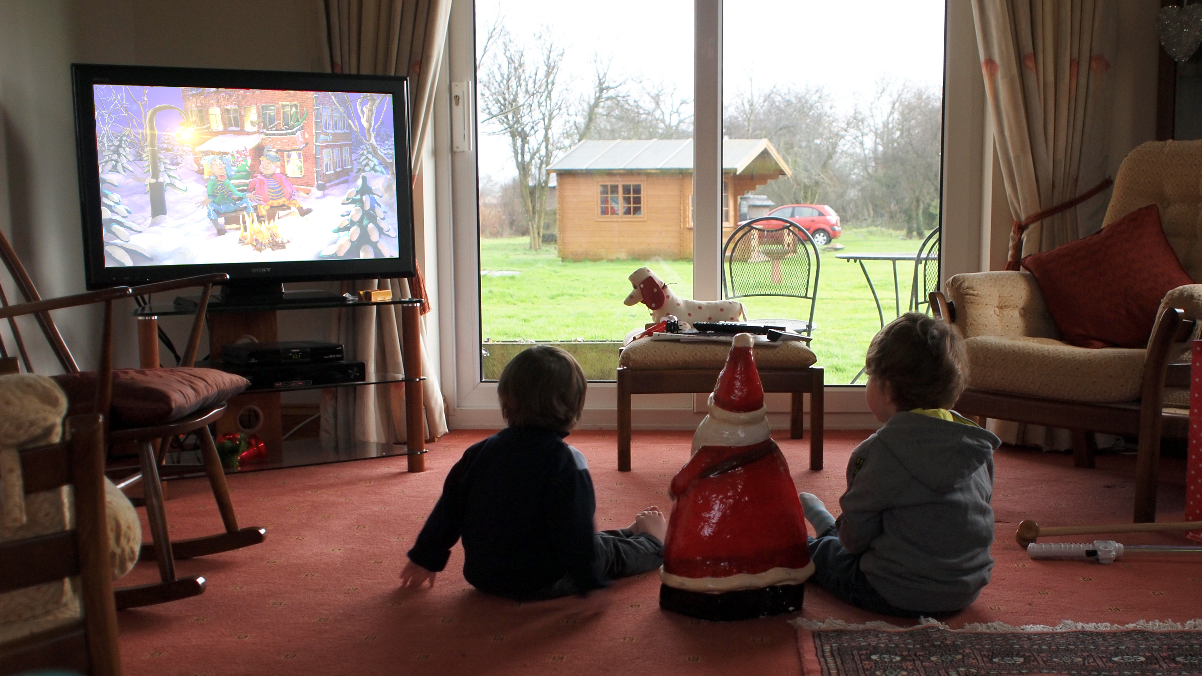 The boys took Santa to watch TV. English | Polski | +/−